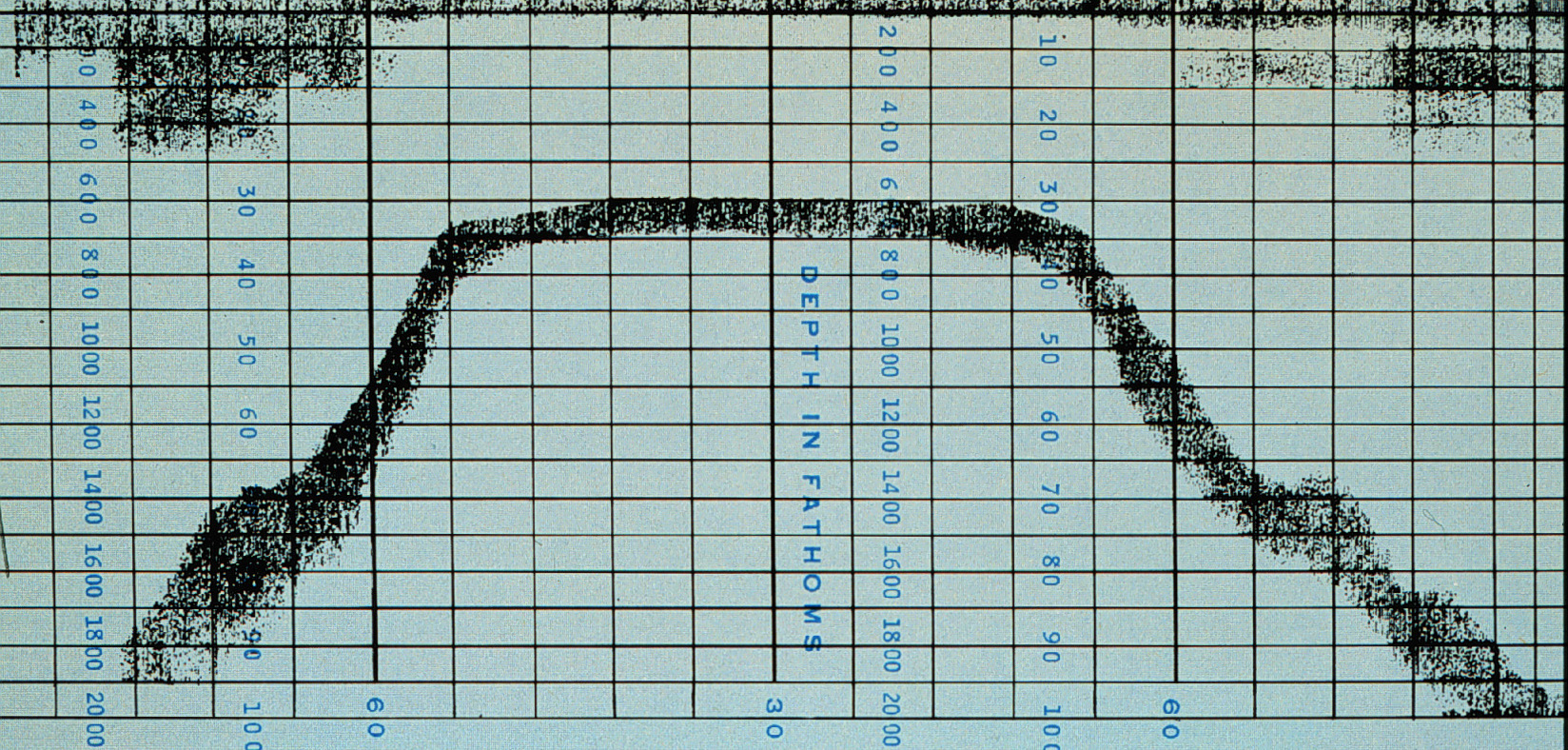 The first guyot discovered by Harry Hess of Princeton University. Flat-topped seamounts which are common in the Pacific. Discovered by Hess as naval officer in WWII.